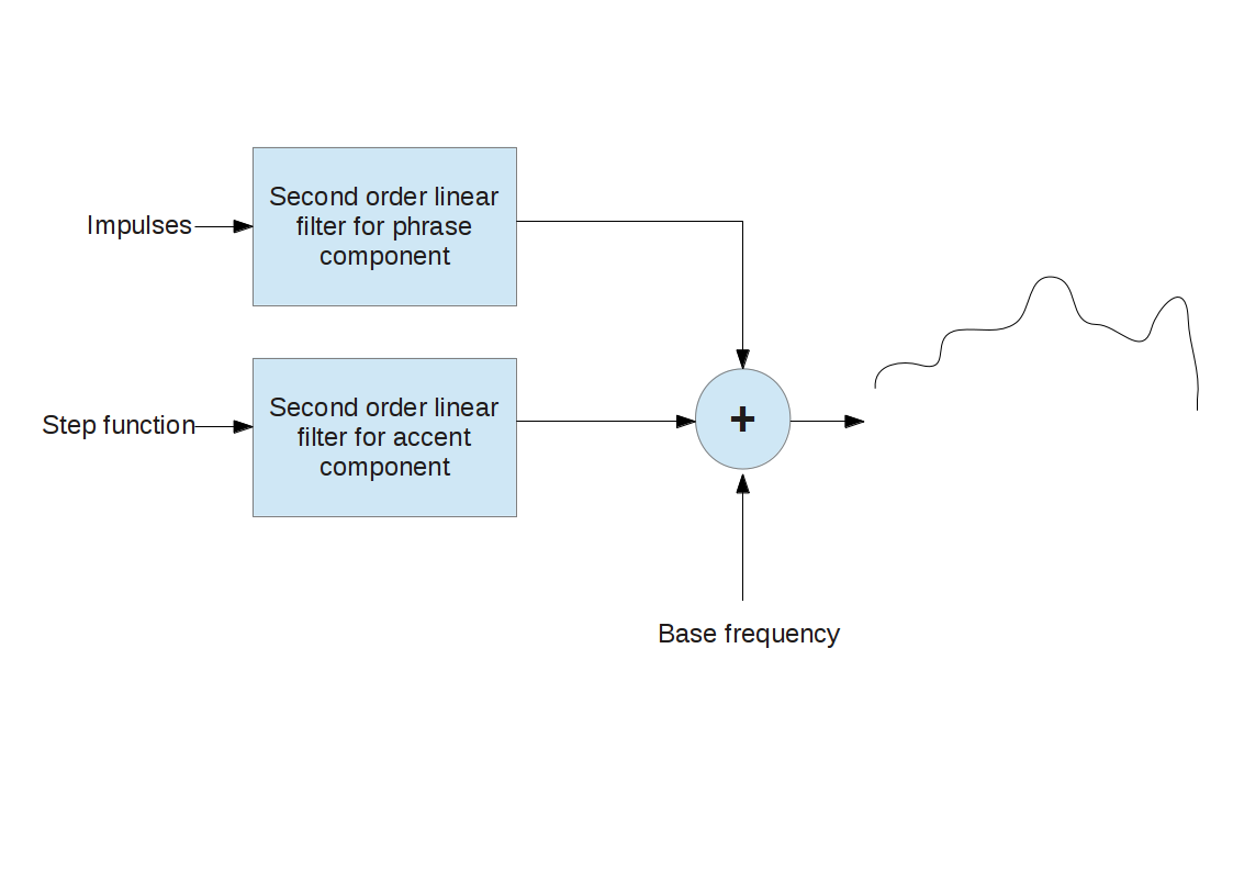 An overview of the Fujisaki model of F0 representation